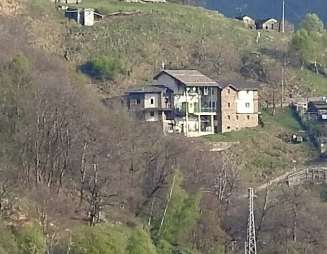 Upper station of the Piero-Monteviasco aerial cableway. Cropped from File:Val Veddasca, VA - Biegno - Monteviasco v NW.jpg